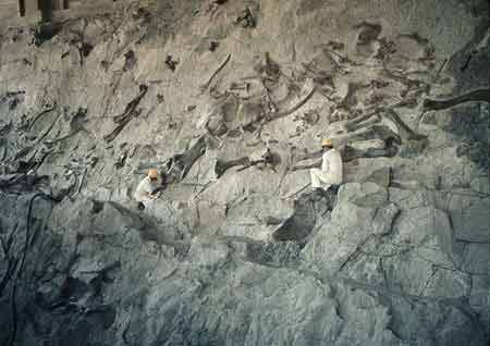 Dinosaur National Monument - inside the Dinosaur Quarry building Inside the Dinosaur Quarry building, the quarry face contains thousands of dinosaur bones and other fossils, most of which are in place as they were found. These fossils represent a whole community of Jurassic Period life, from 30-ton adult apatosaurs to small juvenile dinosaurs, plus turtles, crocodiles, and clams.